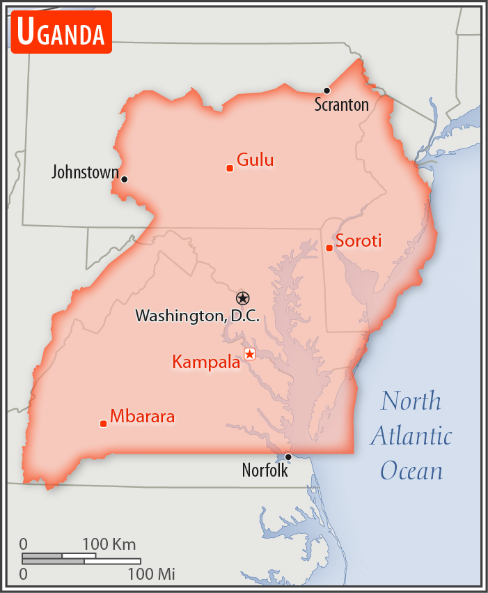 Comparison of the areas of two country. The area of Uganda with biggest cities (red) overlay the area of the United States of America (gray background).